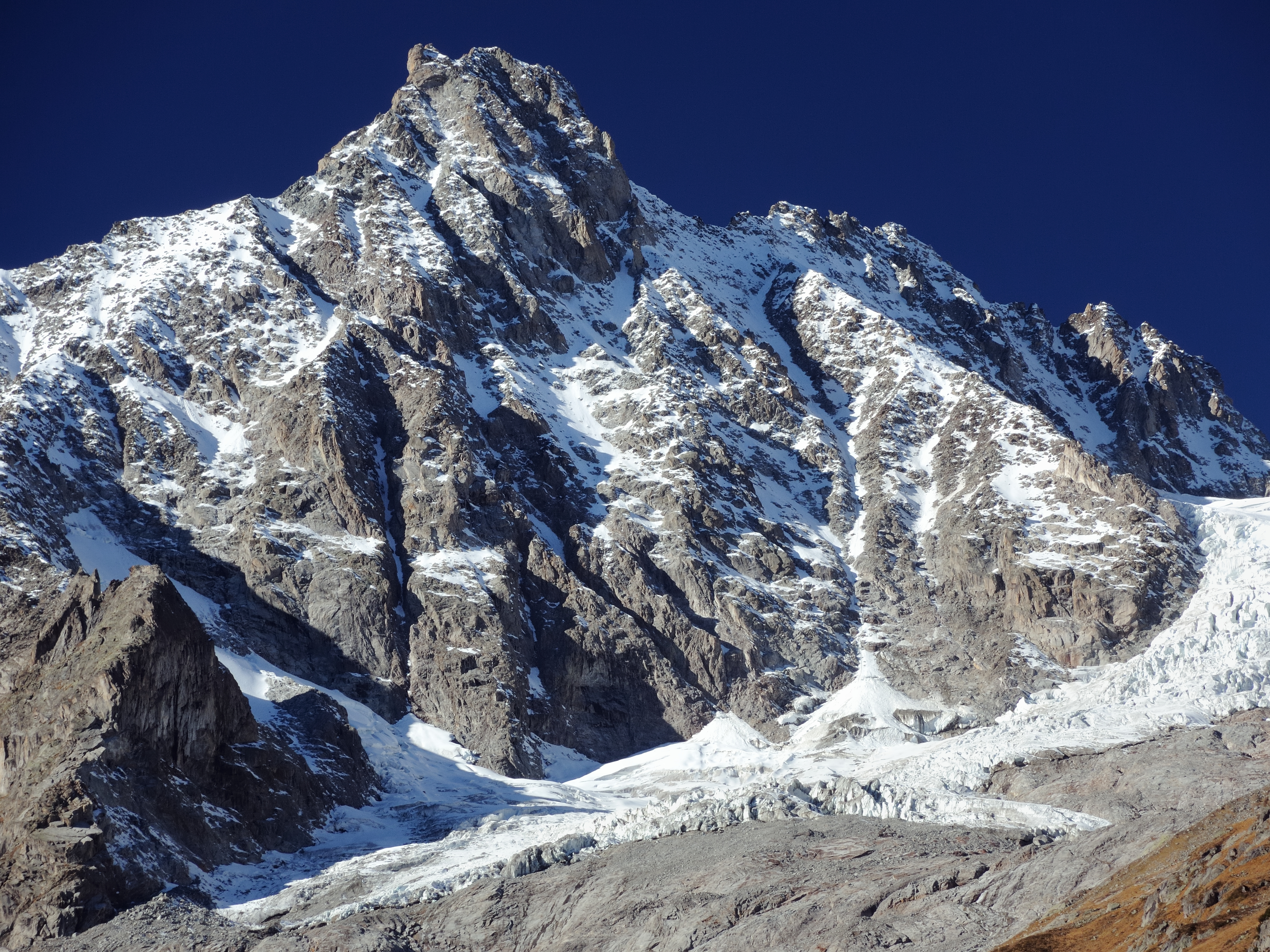 Tour Noir from La Fouly (Valais)